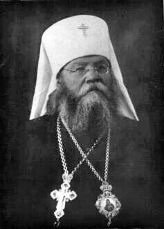 Pavel (Galkovsky)